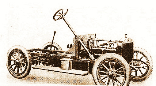 1908 Shamrock 12/14 hp chassis